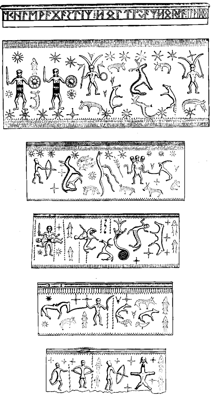 Drawing of the image panels of the smaller of the Gallehus Horns, projected onto a flat surface, by J.R. Paulli (1734), reprinted in H. Klingenberg (1973), immediate source .